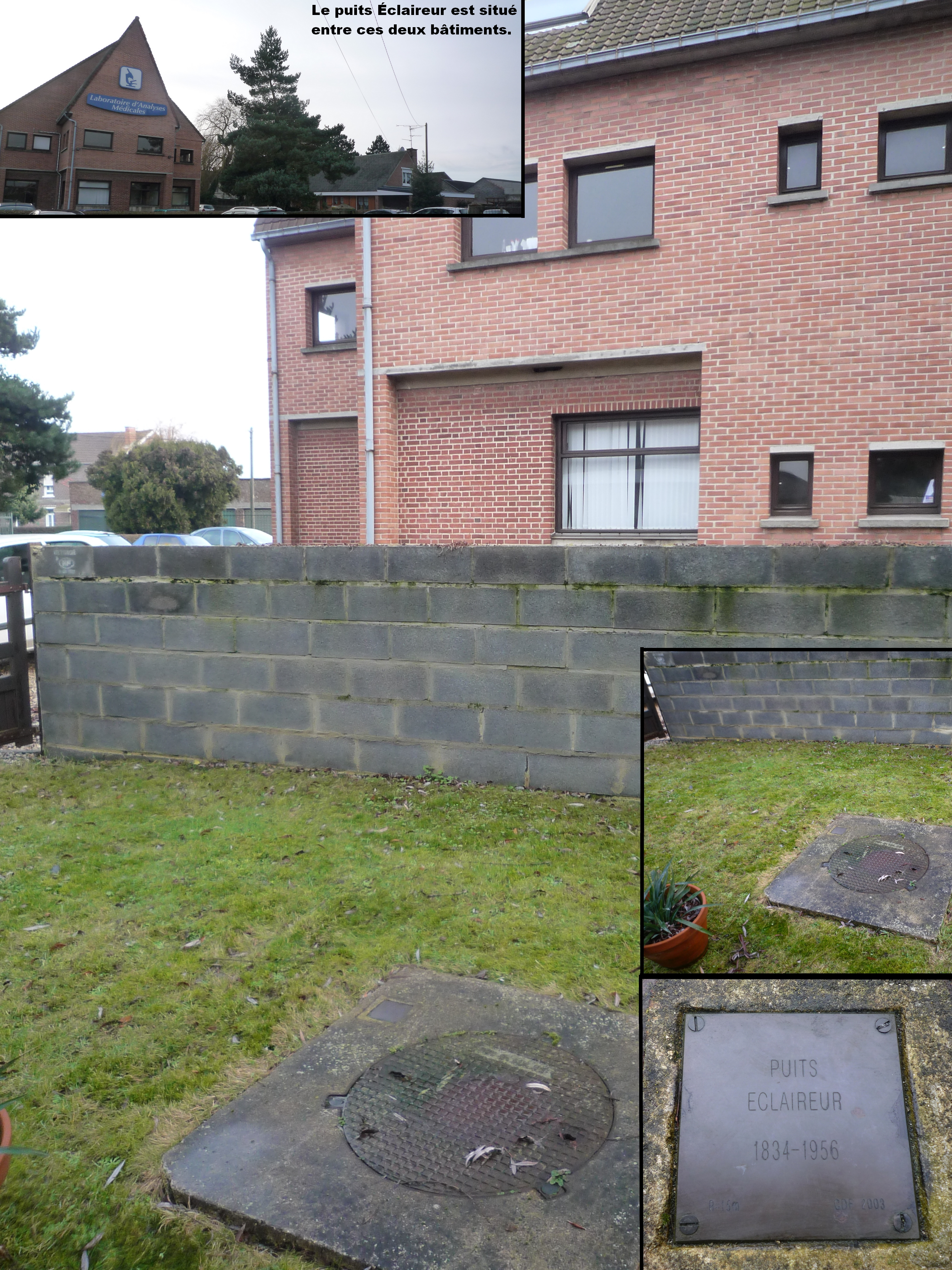 Pit Éclaireur, Compagnie des mines de Douchy, Rœulx, Nord, Nord-Pas-de-Calais, France.